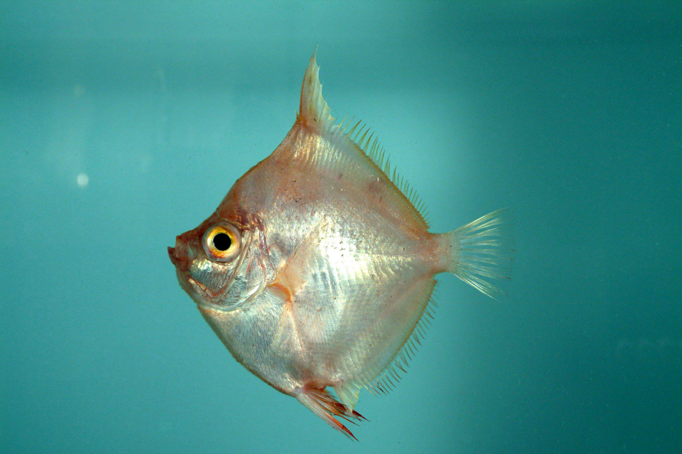 Boarfish ( Antigonia capros). Gulf of Mexico.